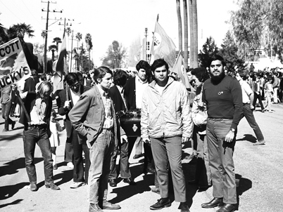 Branch: King Library. Date: 5/28/2008. Description: Cultural Heritage Center "Fiesta de las Rosas".